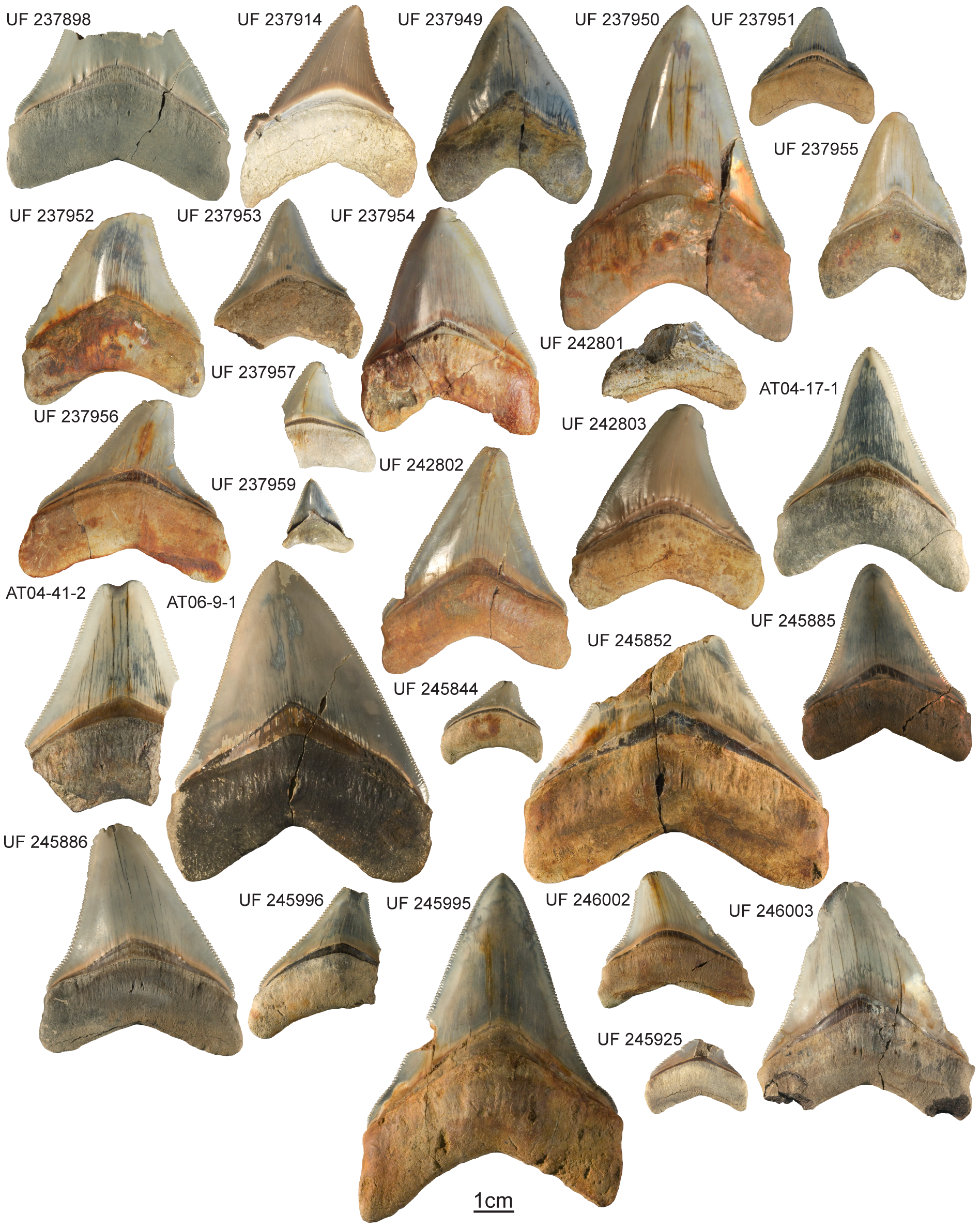 Carcharocles megalodon collection from the Gatun Formation. Specimens and their respective collection numbers. One specimen (CTPA 6671) was not available to photograph.